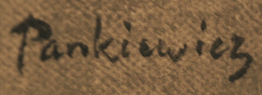 Autograph of Jozef Pankiewicz (1866-1940)